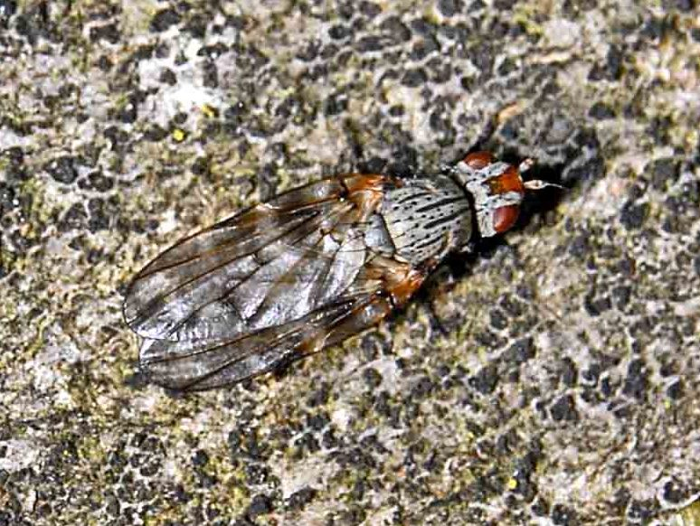 Otites cf. guttata. Capanne di Marcarolo, Alessandria. Italy